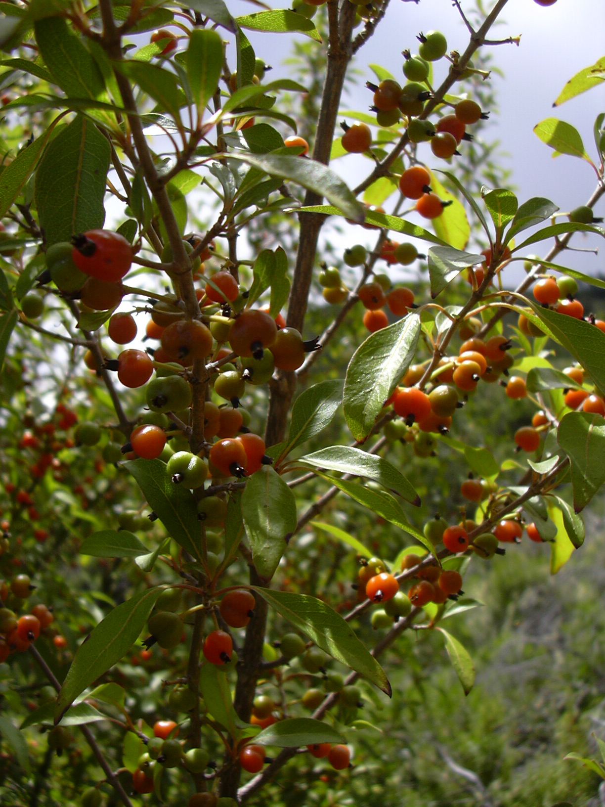 Coprosma foliosa (fruits). Location: Maui, Auwahi